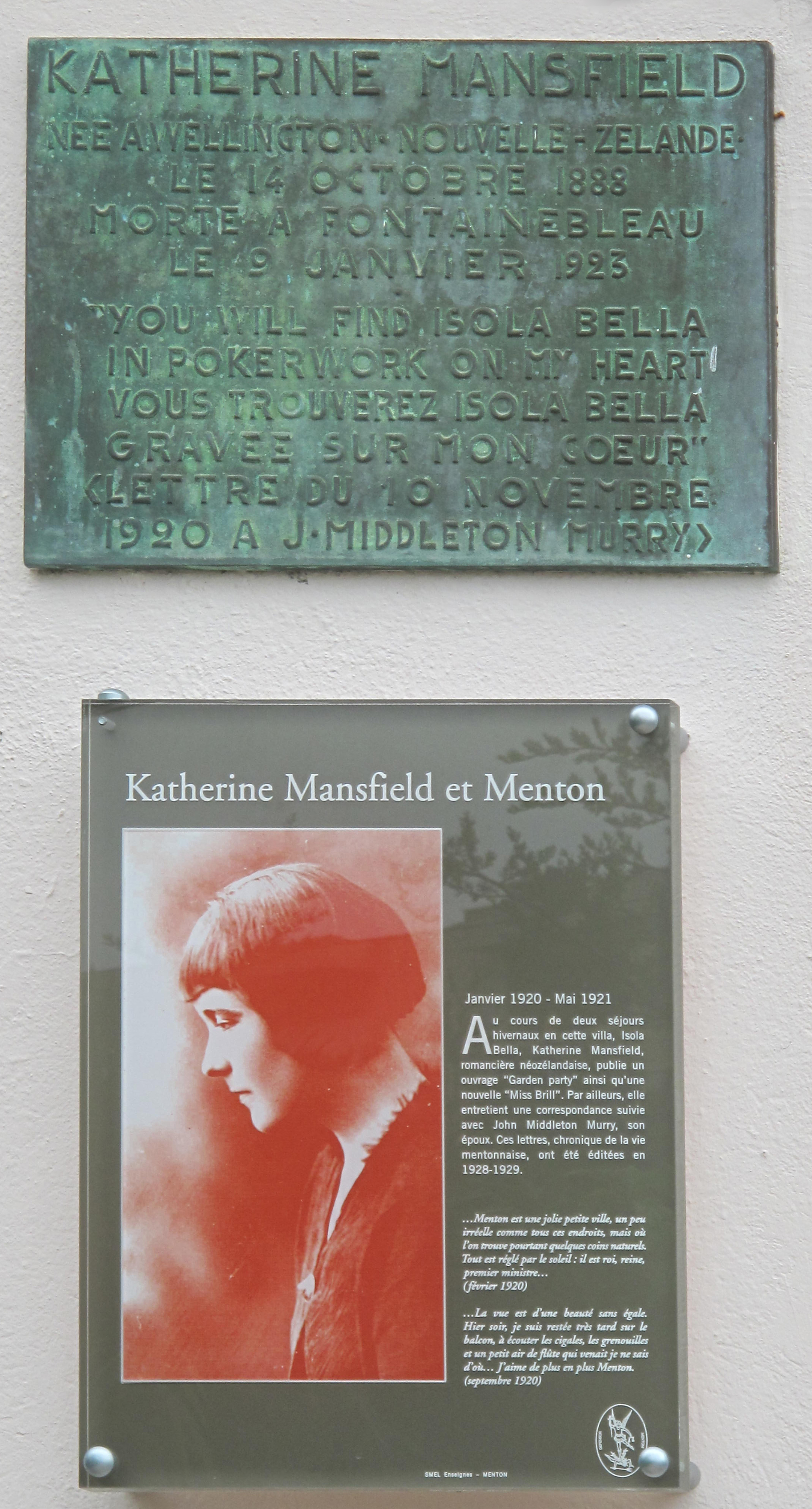 Plaque in memory of Katherine Mansfield rue Chemin Fleuri in Menton (Alpes-Maritimes, France).